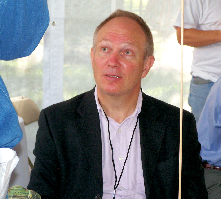 Ian Buruma at the Texas Book Festival, 11th Street, Austin, Texas, United States.